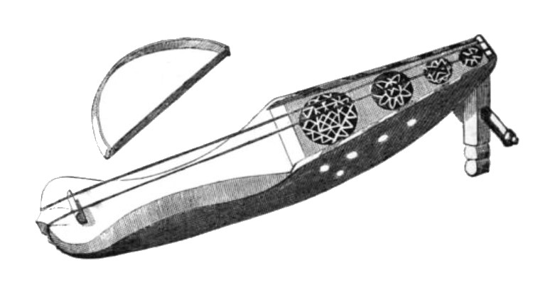 Rebab, bowed stringed instrument from Northern Africa